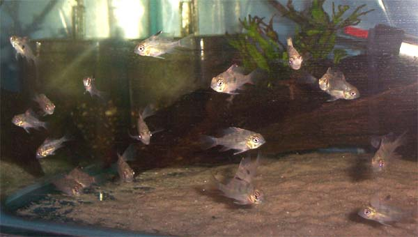 Mikrogeophagus altispinosus, 17 weeks old